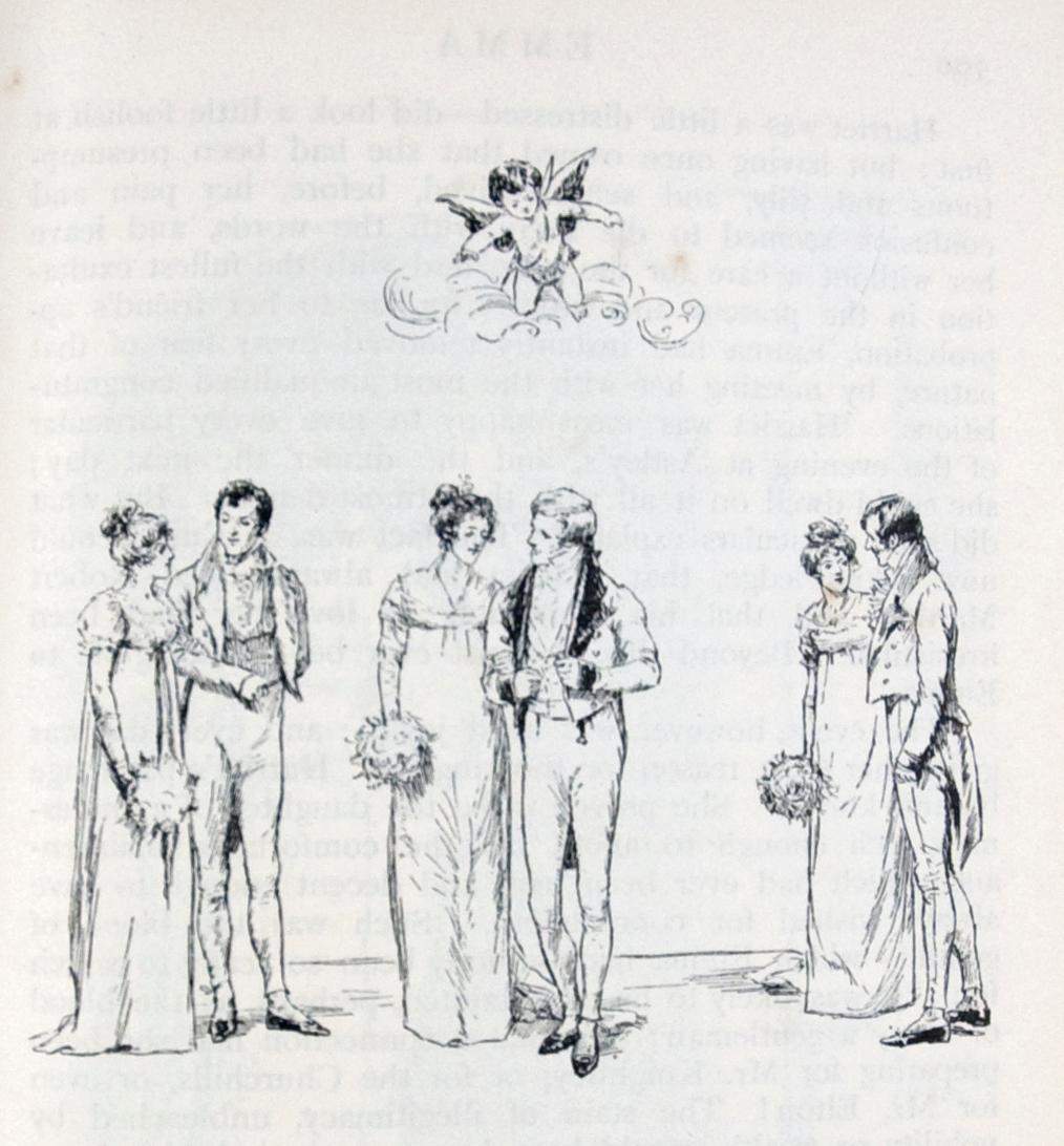 Image at the beginning of Chapter 40 (or Volume 3, Chapter 19). Austen, Jane. Emma. London: George Allen, 1898, page 499. Cupid presiding over the three couples to be married at the end of the novel -- Emma Woodhouse and George Knightley, Harriet Smith and Robert Martin, Jane Fairfax and Frank Churchill